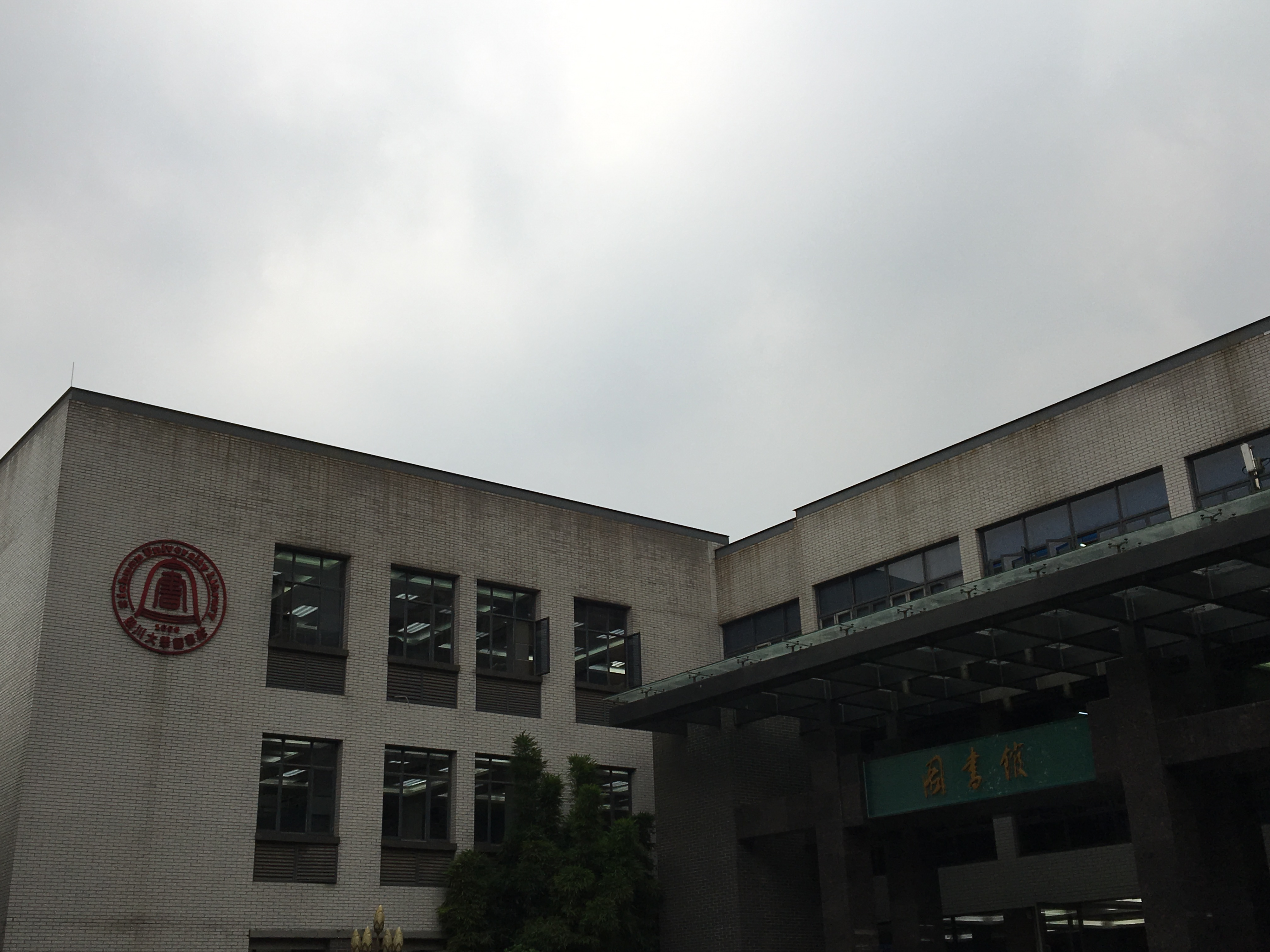 Library of Art and Science, Sichuan University